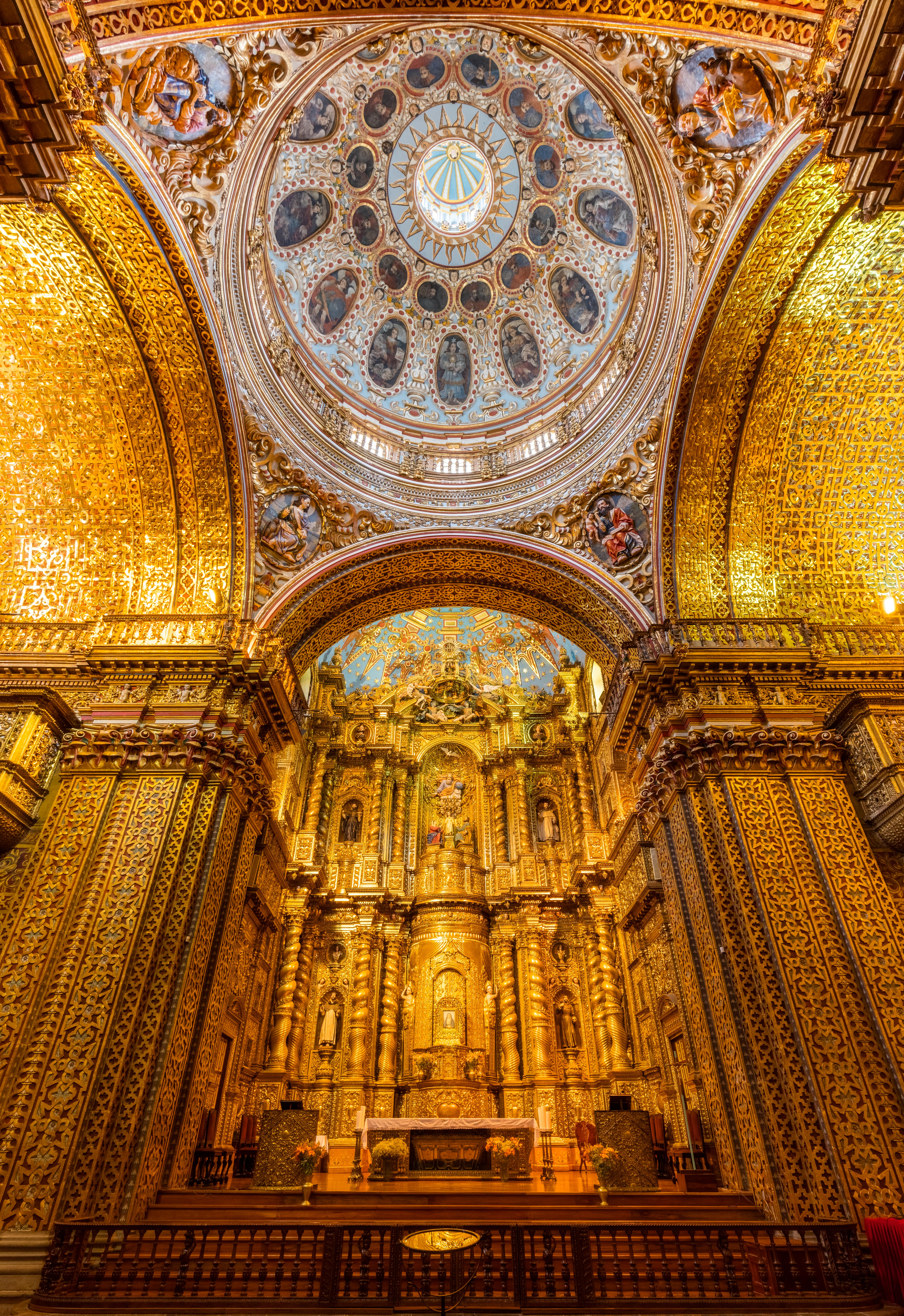 Main altar of the Church of the Society of Jesus (La Iglesia de la Compañía de Jesús), a Jesuit church in Quito, Ecuador. The exterior doesn't give an idea of the beauty of the interior, with a large central nave, which is profusely decorated with gold leaf, gilded plaster and wood carvings, making of it the most ornate church in Quito. The temple is one of the most significant works of Spanish Baroque architecture in America and considered the most beautiful church in Ecuador.